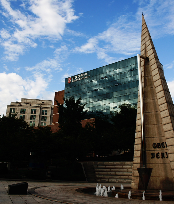 Sogang University, Korea